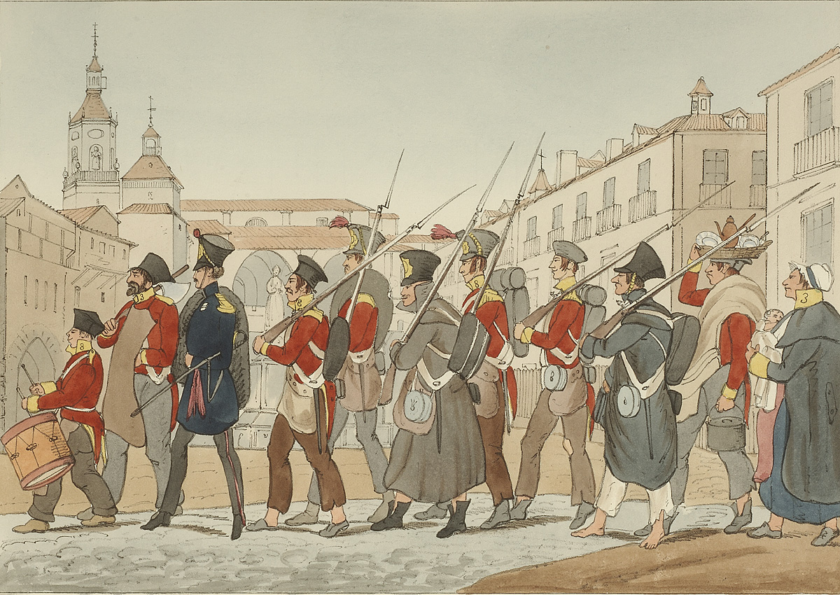 "The British Legion" by J. W. Giles (from the collection of Museo Zumalakarregi).